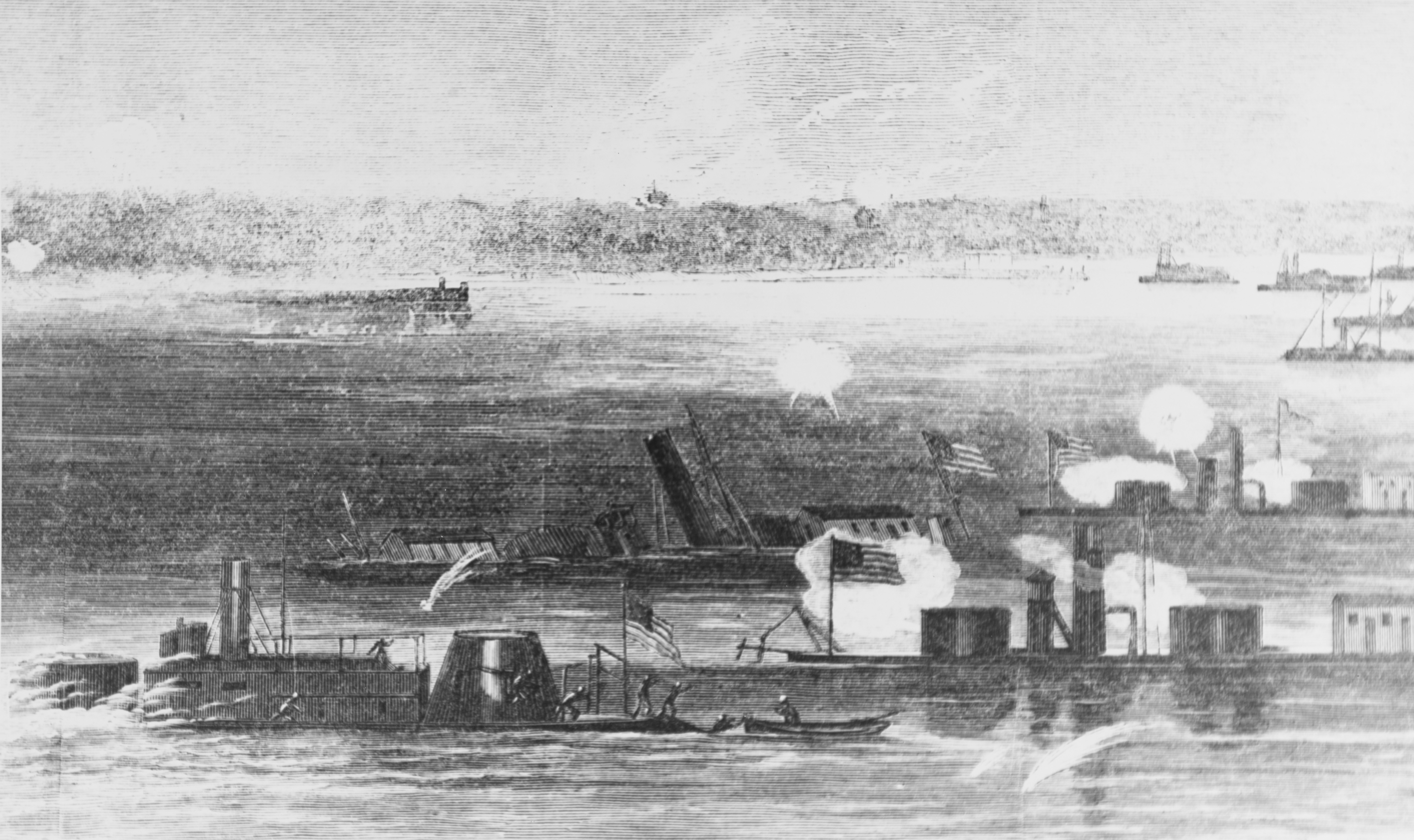 Line engraving published in Harper's Weekly, 29 April 1865, depicting USS Osage striking a mine and sinking near Spanish Fort on 29 March 1865. The wreck of USS Milwaukee, which had been sunk by a mine on the previous day, is in the center middle distance. The twin-turret monitors at right are two of the following: USS Winnebago, USS Chickasaw and USS Kickapoo. Ships in the right distance are Double-Ender and Tinclad gunboats also engaged in attacking the Confederate-held Spanish Fort. U.S. Naval History and Heritage Command Photograph.